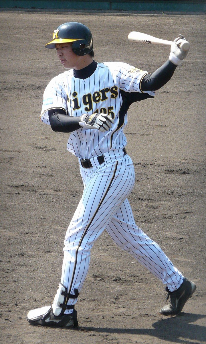 Kosei Fujii